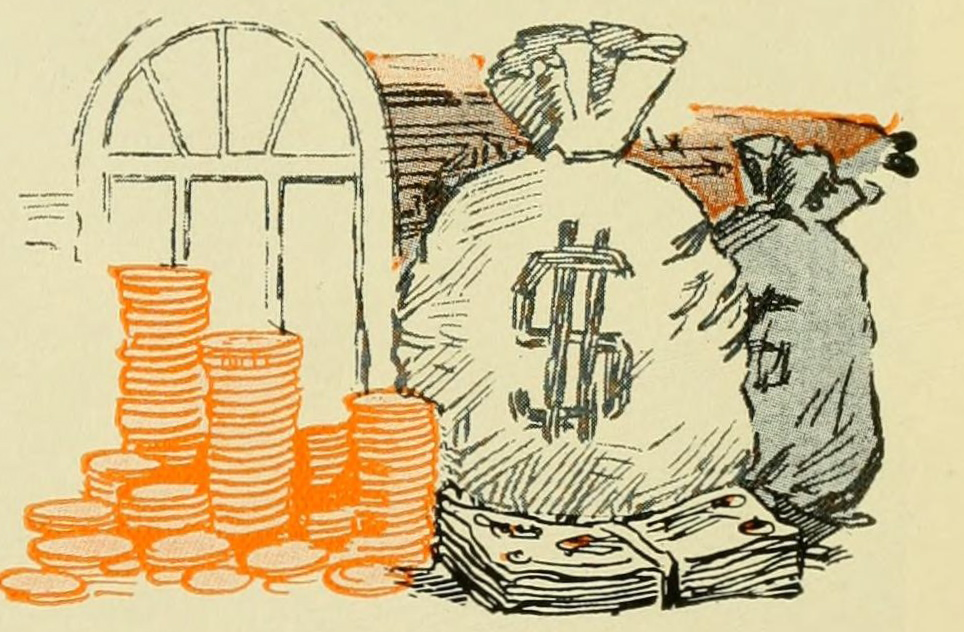 Moneybags. Spot art from booklet "New Orleans - City of Old Romance and New Opportunity". Promotional booklet published by Bauerlein, Inc, New Orleans, by unnamed contributors sponsored by the Southern Railway System. Note: Web source gives date as "1920"; photos showing the Hibernia Bank Building apparently complete suggest the following year; no date or copyright statement in the original.